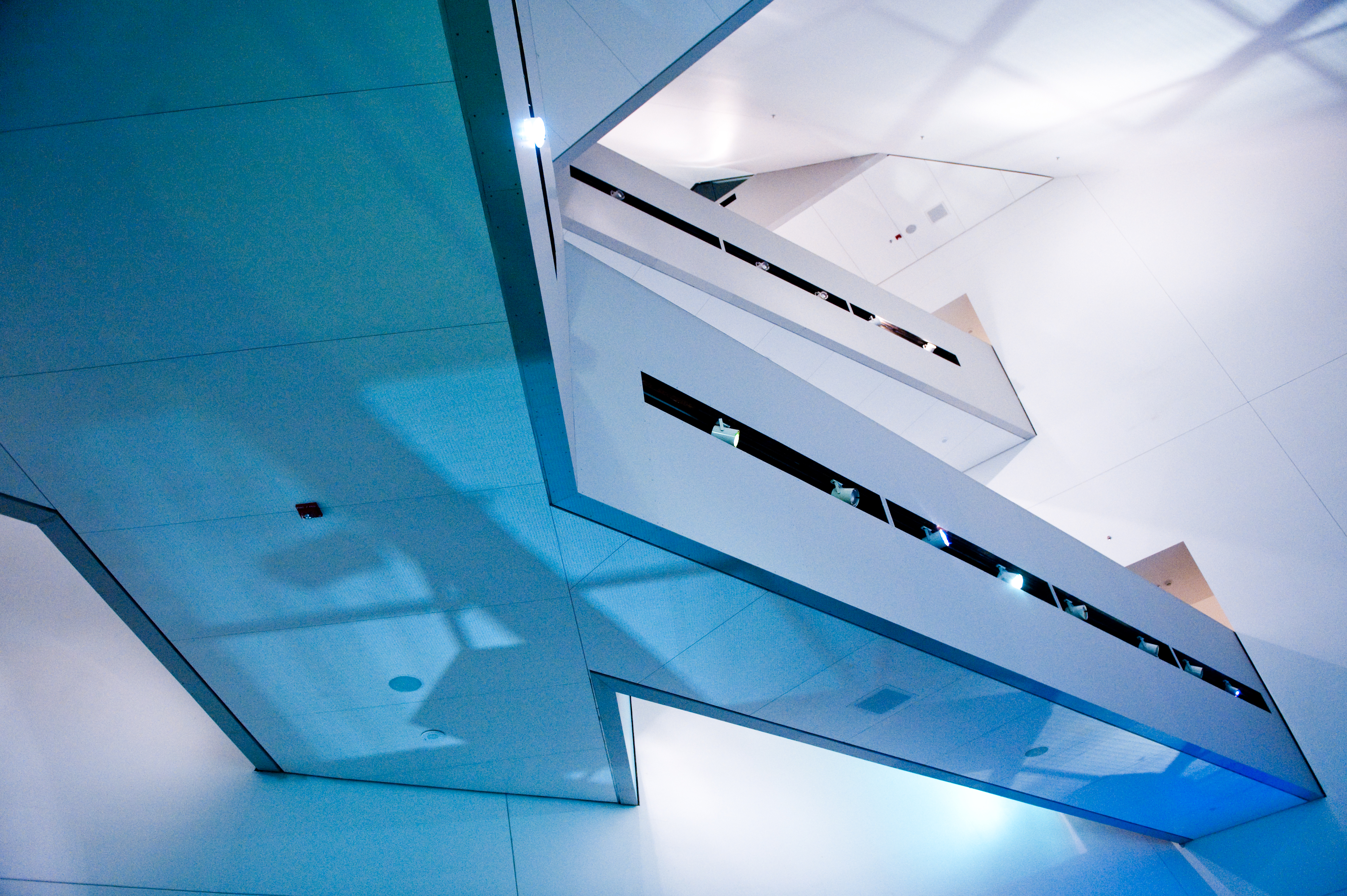 Interior of the Royal Ontario Museum